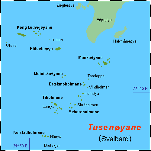 Map Tusenøyane (rough), Svalbard, Norway